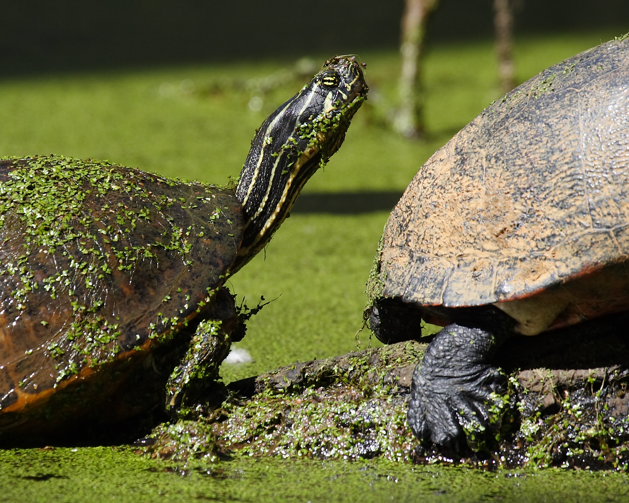 Florida Redbelly Turtle (Pseudemys nelsoni) at Boy Scout Camp Echockotee. Freshwater spring covered by vegetation. Around noon. These turtles spend most of the day bathing in sun on a log or spring shore. An English article on Wikipedia on Redbelly Turtles - Florida_Redbelly_Turtle